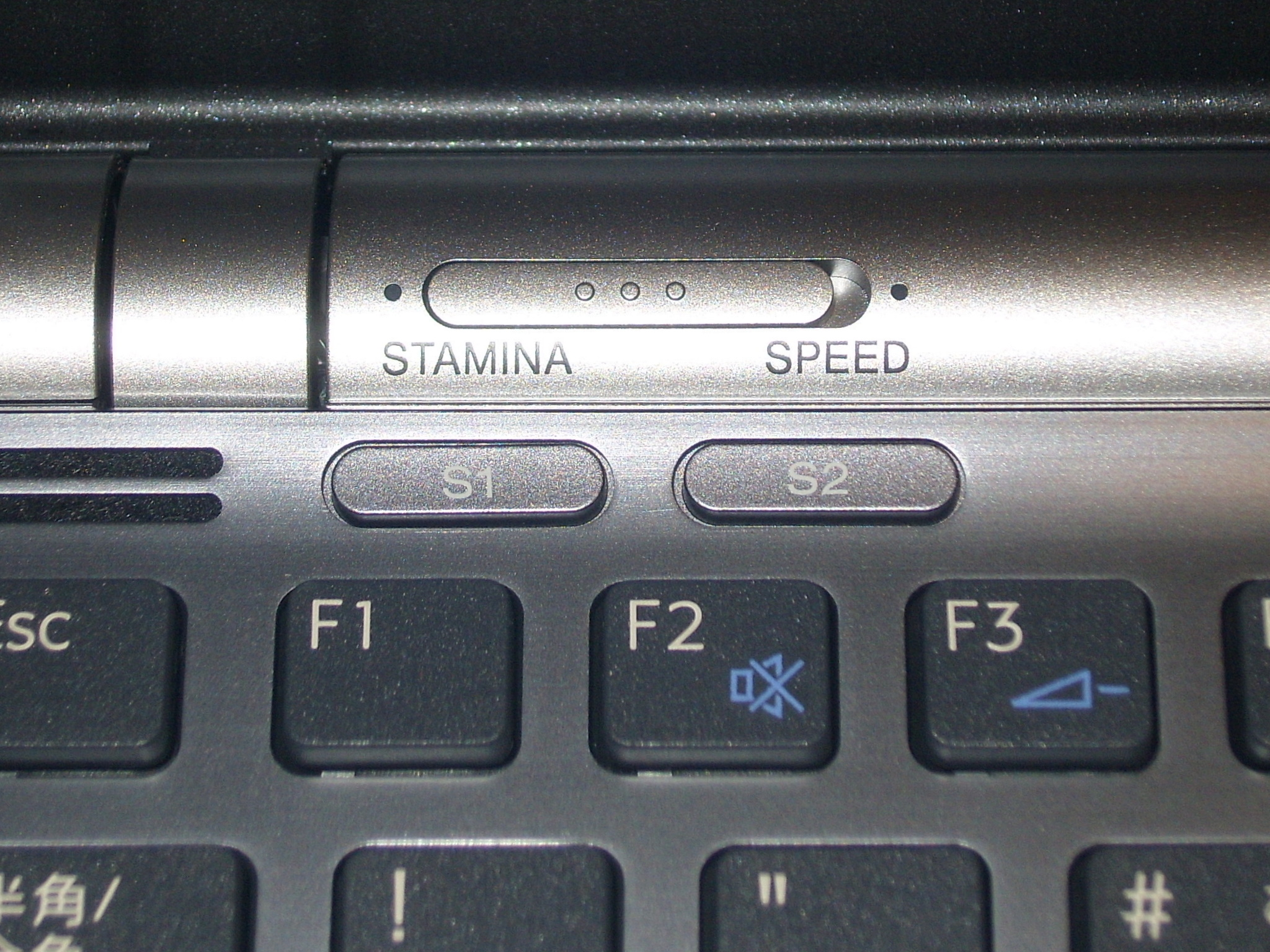 Sony Taiwan VAIO Experience 2008 Press Conference: Situational switch buttons of VAIO Z series.